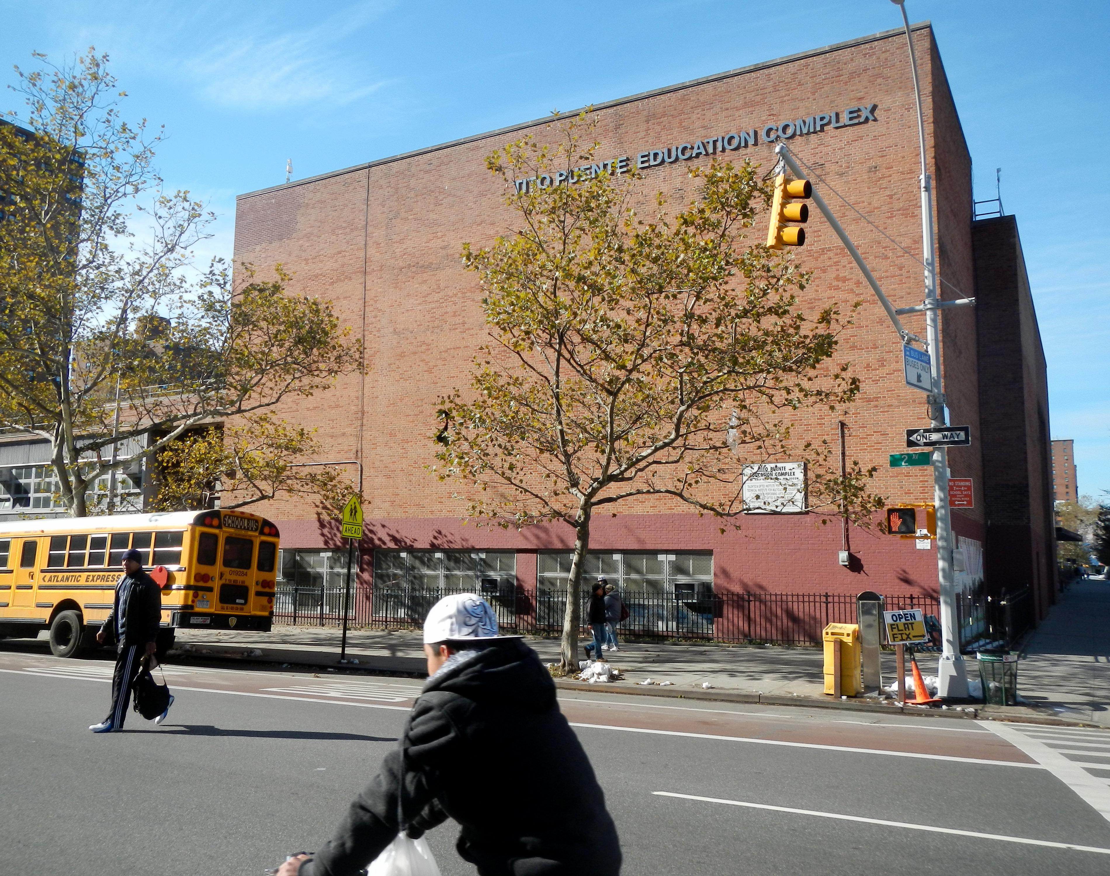 Looking west at Puente school on a sunny midday.